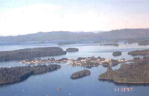 Oblique aerial view of Craig, Prince of Wales Island, Prince of Wales – Hyder Census Area, Unorganized Borough, Alaska 99921. View facing somewhat North (not sure of the exact compass direction).